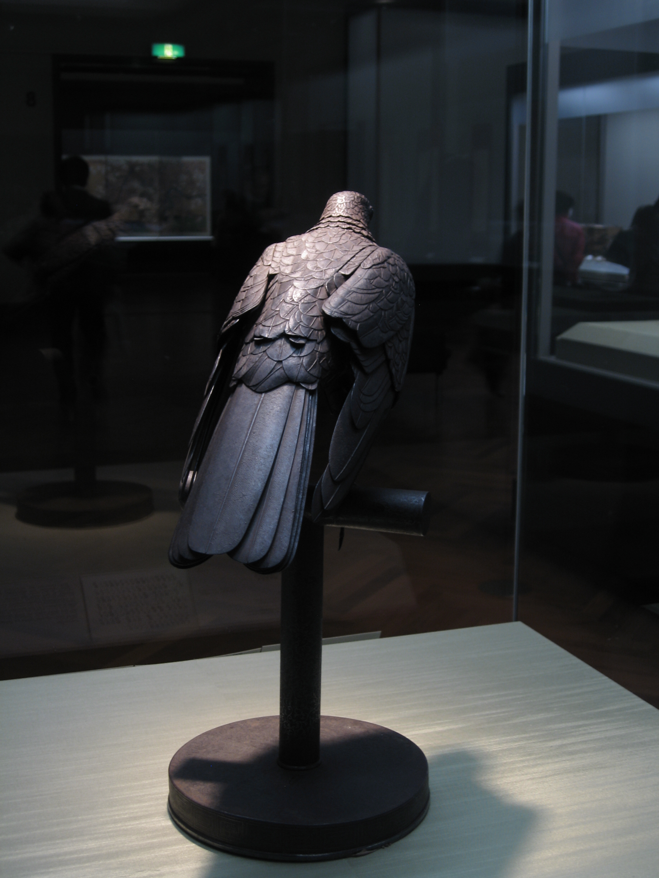 A Jizai Okimono (articulated figure) of hawk made of iron, by Myochin Kiyoharu in late Edo period. A view from backside. Displayed in Tokyo National Museum.